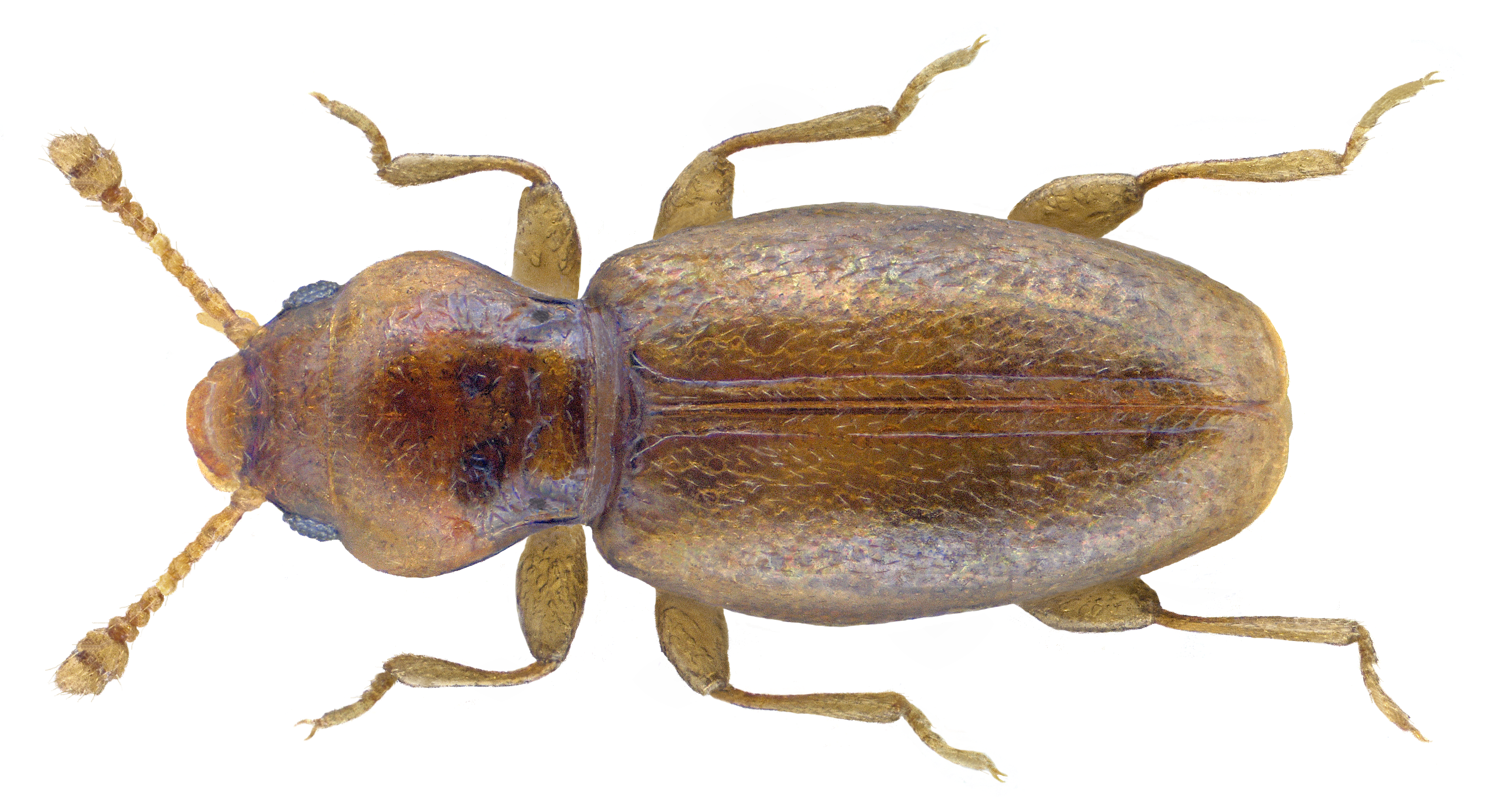 Family: Endomychidae Size: 1.24 mm (around 1.0 mm) Distribution: Europe, very rare Ecology: feed on molds, very rare Location: England, Stutton leg.det.D.Nash, 27.VI.2004 Coll. Oxford University Museum of Natural History Foto: U.Schmidt, 2018